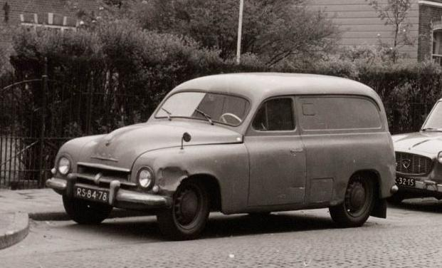 Škoda 1201 van